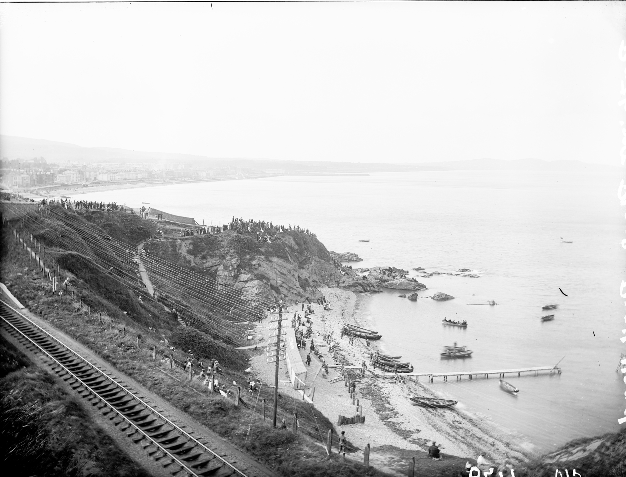 This wonderful Lawrence shot is at Bray Head - but what is going on here and when did it all take place? While it was quickly established that the catalogue is correct, and this is Naylor's Cove, with the town of Bray visible in the background, we did not immediately confirm a date and info on the event pictured. Following early suggestions however from [/photos/patvic67/ patrick.vickers1] and [/photos/129555378@N07/ sharon.corbet], [/photos/gnmcauley/ Niall Mccauley] offered strong evidence that the image is from one of Bray's August regattas between 1907 and 1914! Thanks also to [/photos/91549360@N03/ O Mac] for information on the railway line in the foreground, and to [/photos/kestrelsprite/ KestrelSprite], [/photos/gnmcauley/ Niall] and [/photos/eyelightfilms/ eyelightfilms] for the discussion on the Drumm Battery Train which ran on the line. (Not related, but as a reminder, a repeat from the "Tríd an Lionsa" series will show tonight 10 Nov 2015 at 9pm on TG4. Also available on their catch-up player, the latest episode involves collections and colleagues from Library Towers...) Photographer: Robert French Collection: The Lawrence Photograph Collection Date: c.1865-1914 (likely 1907-1914 based on key buildings pictured in background) NLI Ref: L_ROY_00479 You can also view this image, and many thousands of others, on the NLI’s catalogue at